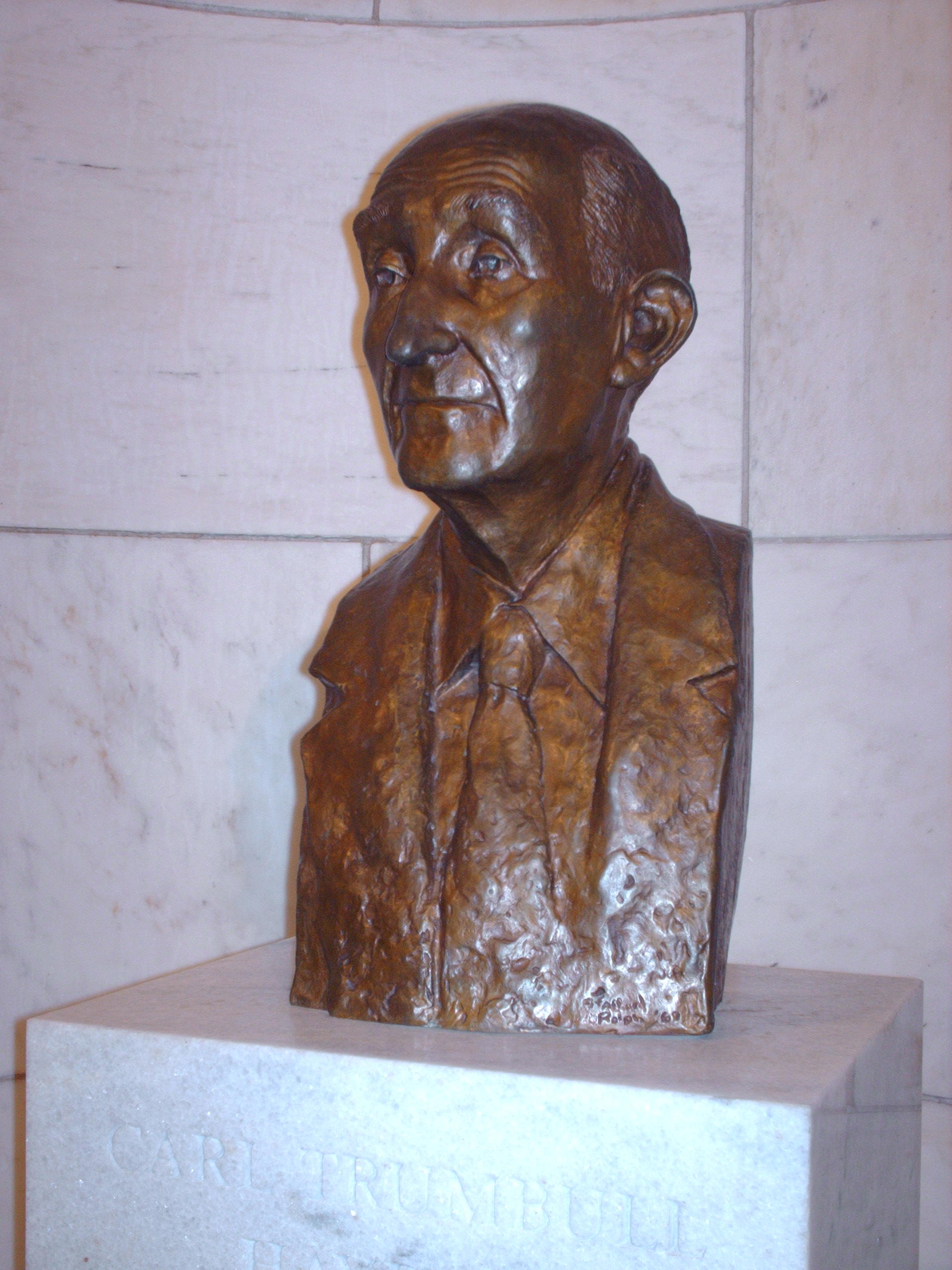 Bust of Carl Hayden